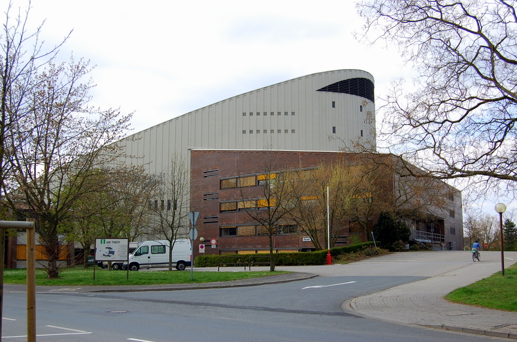 Theatre of Rüsselsheim (Germany)